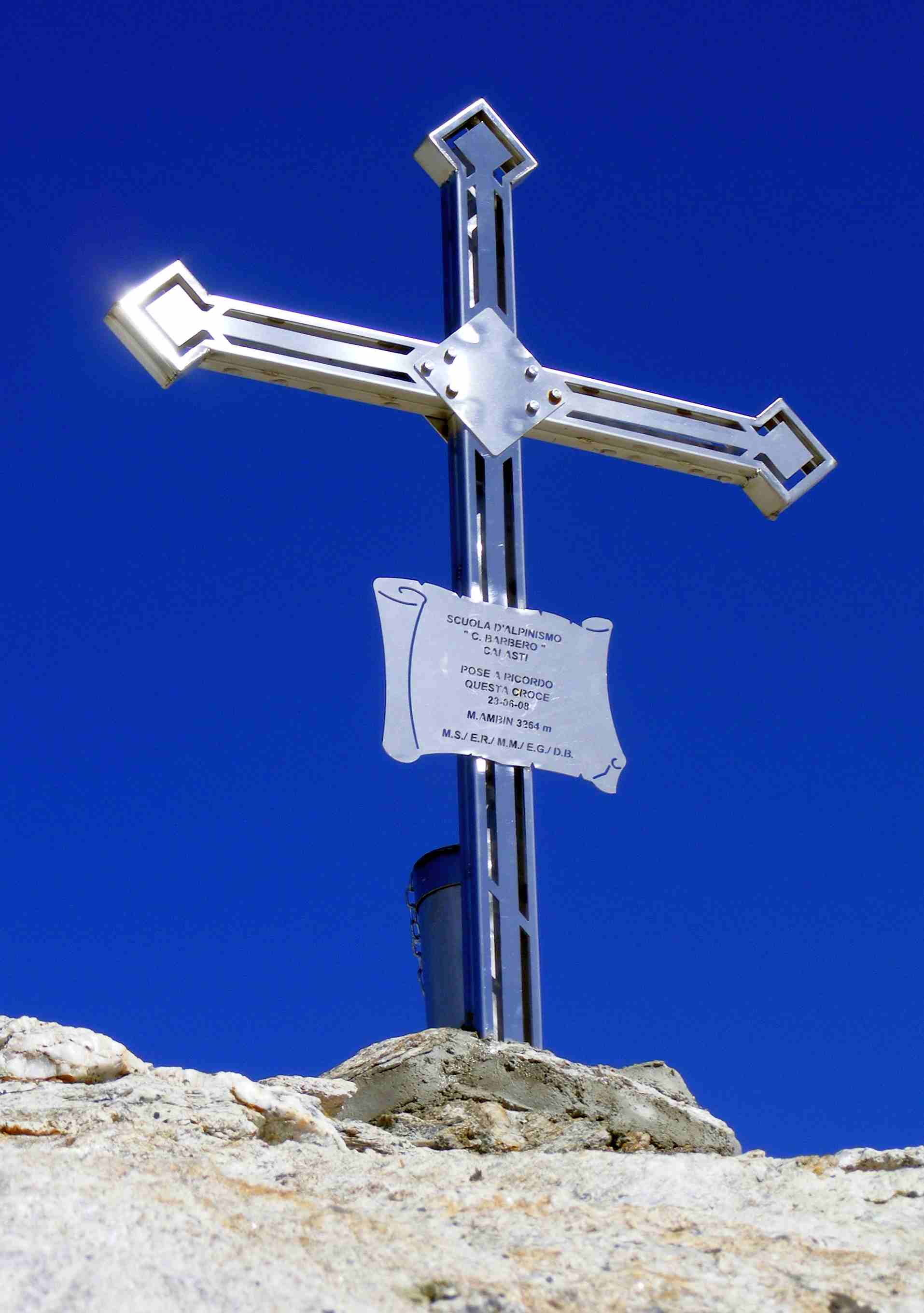 Monte Ambin / Pointe d'Ambin (Italy/France border): the cross on the top